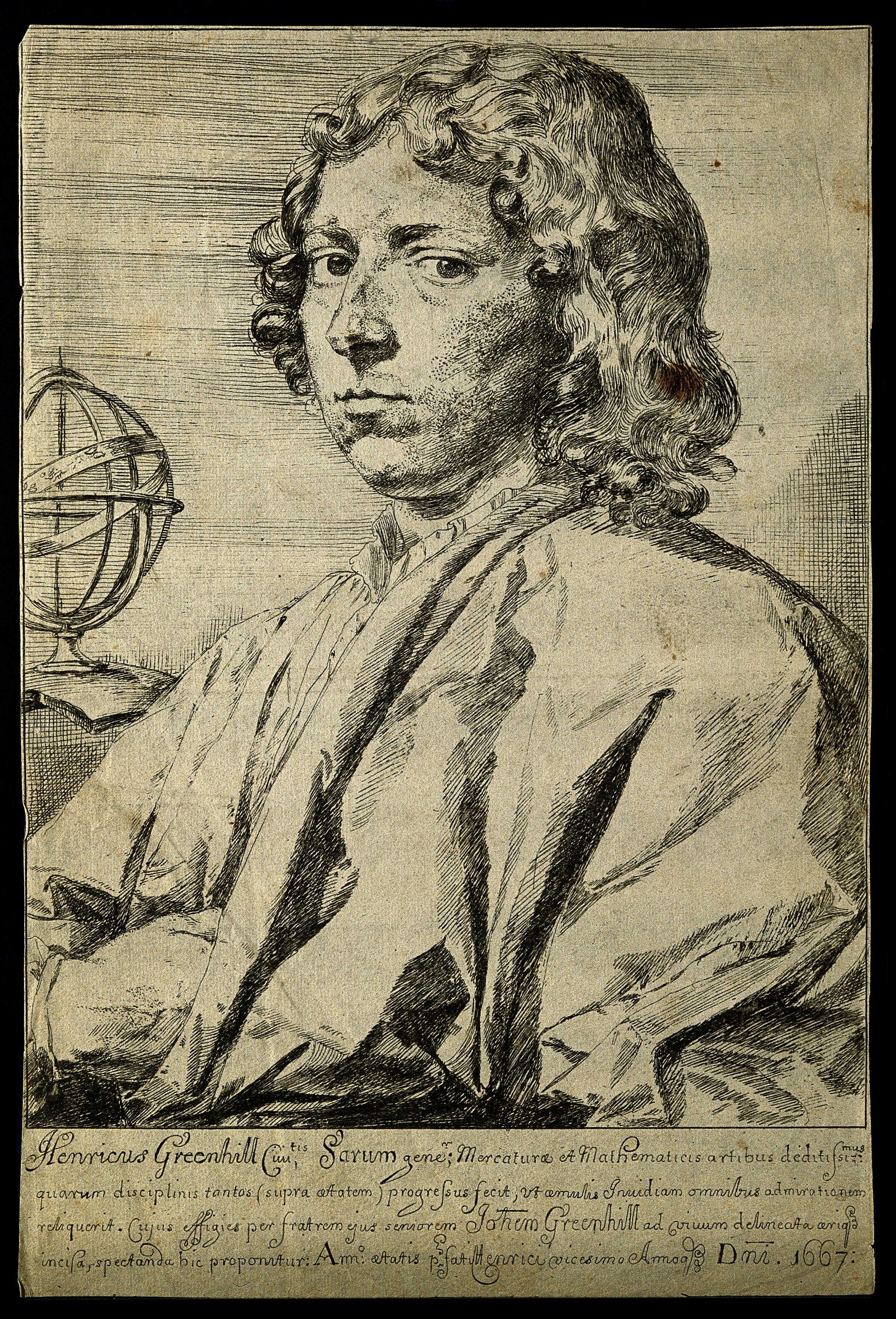 Henry Greenhill. Etching by J. Greenhill, 1667, after himself. Iconographic Collections Keywords: portrait prints; Henry Greenhill; etchings